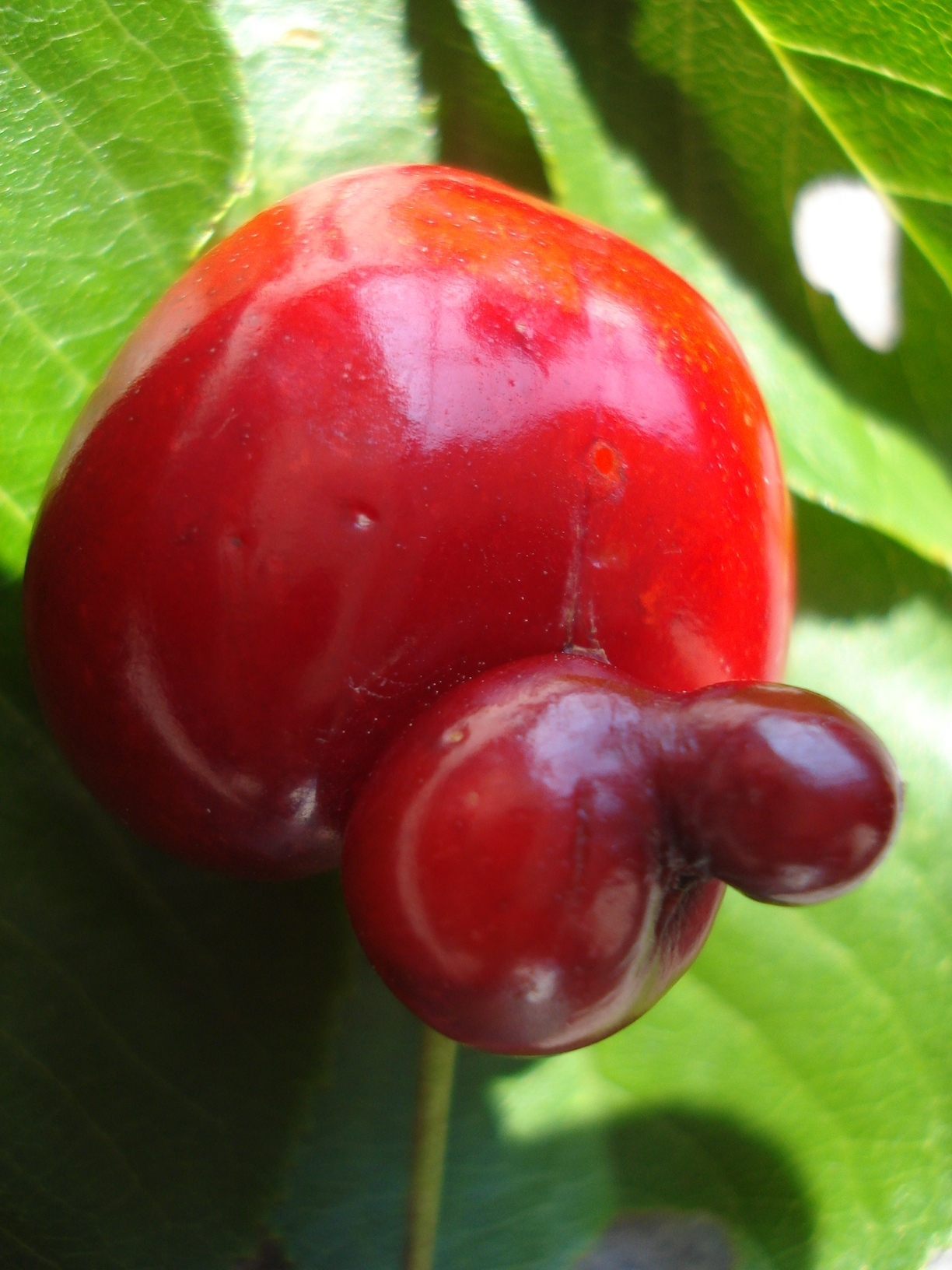 Cherry - Germersdorfer variety (grown in Međimurje County, northern Croatia) - unusually shaped (with outgrowth) Trešnja - sorta Germersdorfska (uzgojena u Međimurju, Hrvatska) - s izraslinom neobična oblika